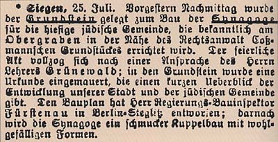 City of Siegen/Westphalia: Newspaper article from the Siegener Zeitung, issue of July 25, 1903, informing about the construction of the new synagogue in the center of town